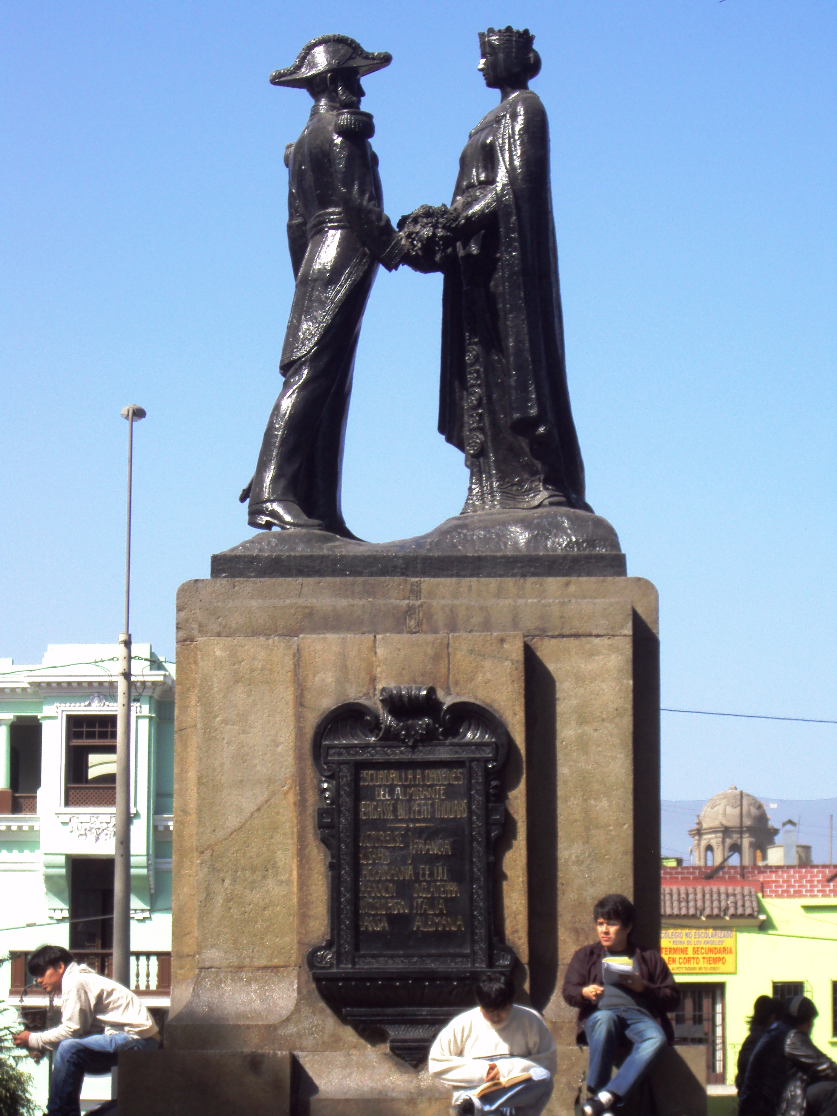 Statue of Petit Thouars in Santa Beatriz, Lima (Peru).